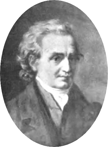 Ritaglio